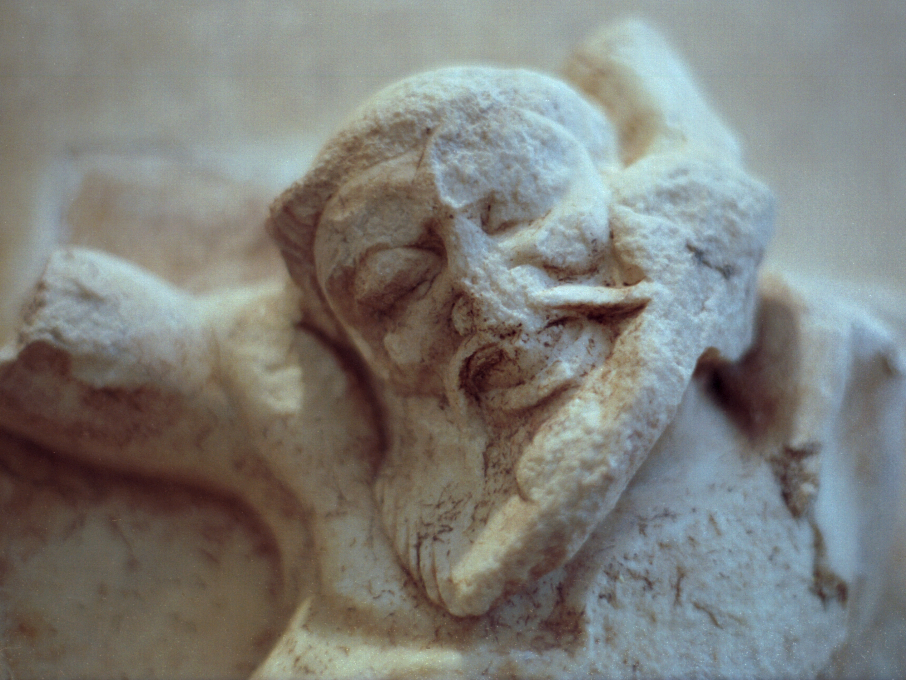 Metope from the Treasury of Athenians at Delphi. Detail of Skiron (Sciron). Theseus battling with the Queen of Amazons, around 500 BC. Archaeological Museum of Delphi.